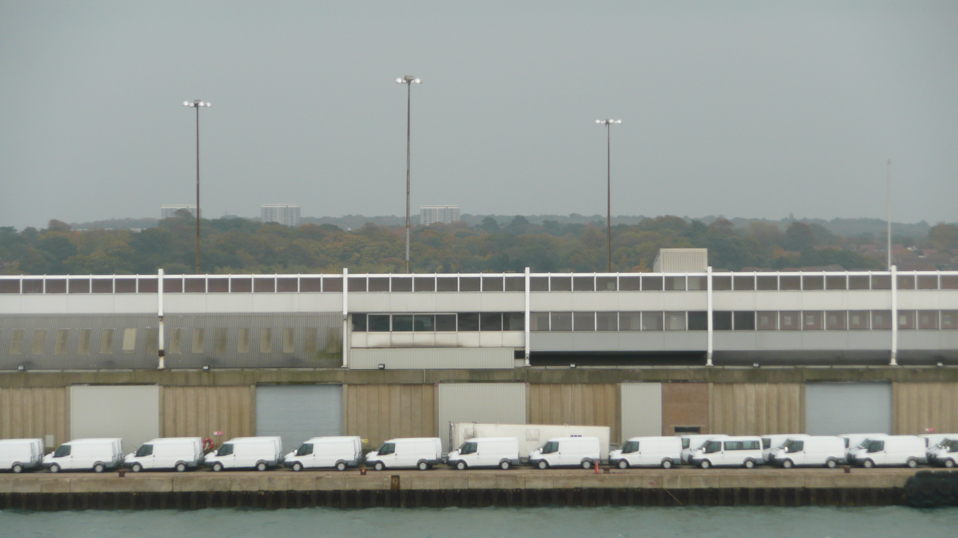 A line of Ford Transit vans at Southampton Docks, waiting for export to various places. Ford Transits are built in Southampton, hence they are exported from the docks here.